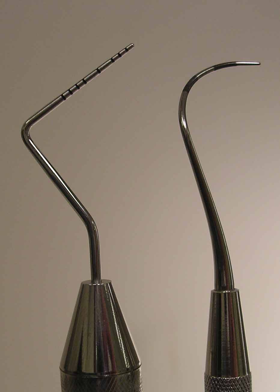 Close-up picture of a Michigan O probe with Williams markings (left) and a Nabers probe (right). Taken at the University of Tennessee's Health Science Center: College of Dentistry in Memphis on September 9, 2005.